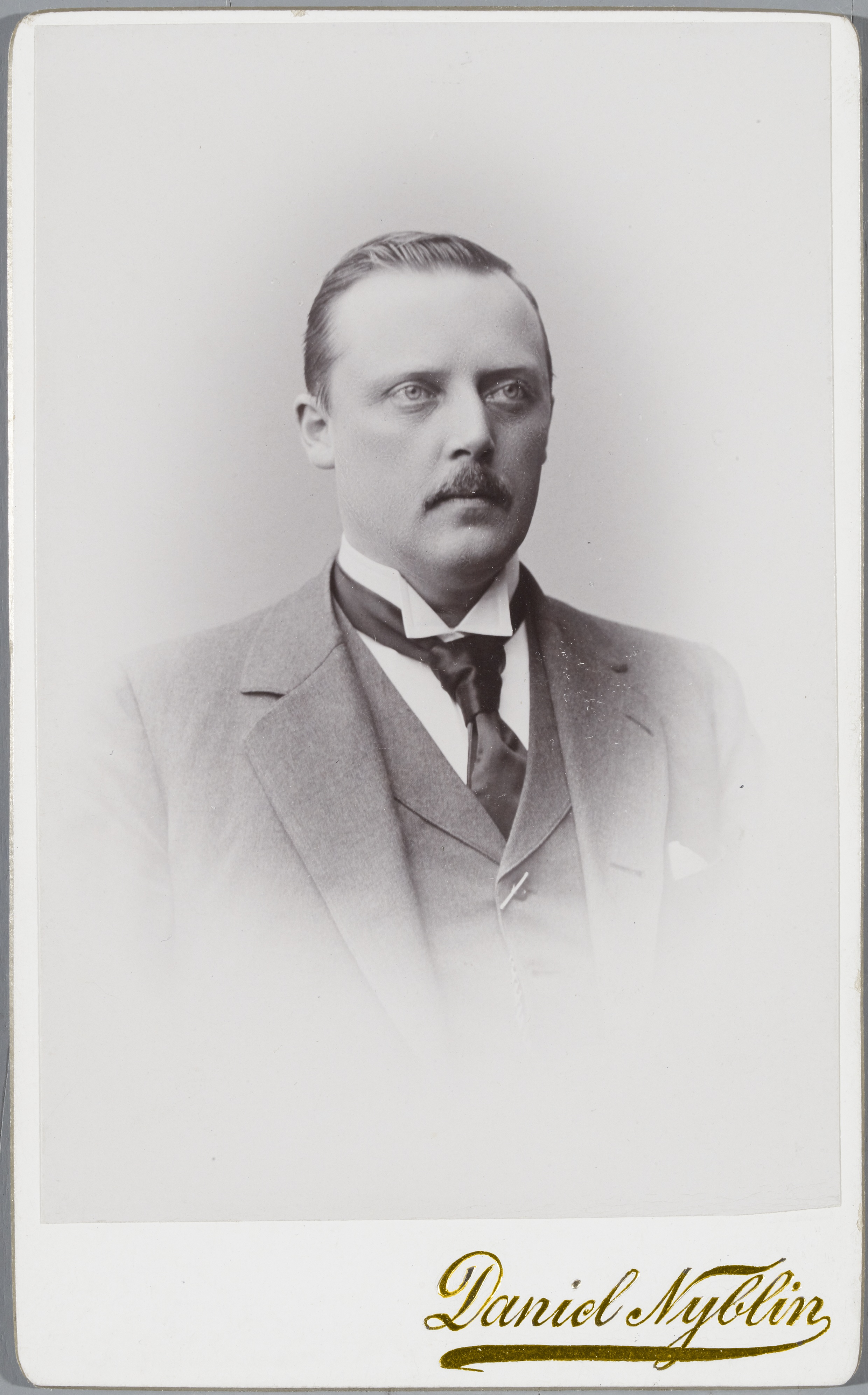 Photograph of the Finnish journalist and athlete Reinhold Felix von Willebrand (1858–1935)